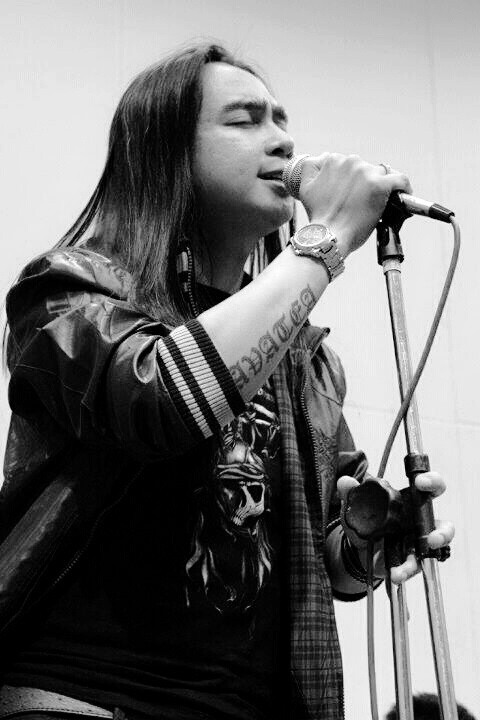 Live in RTM Sibu